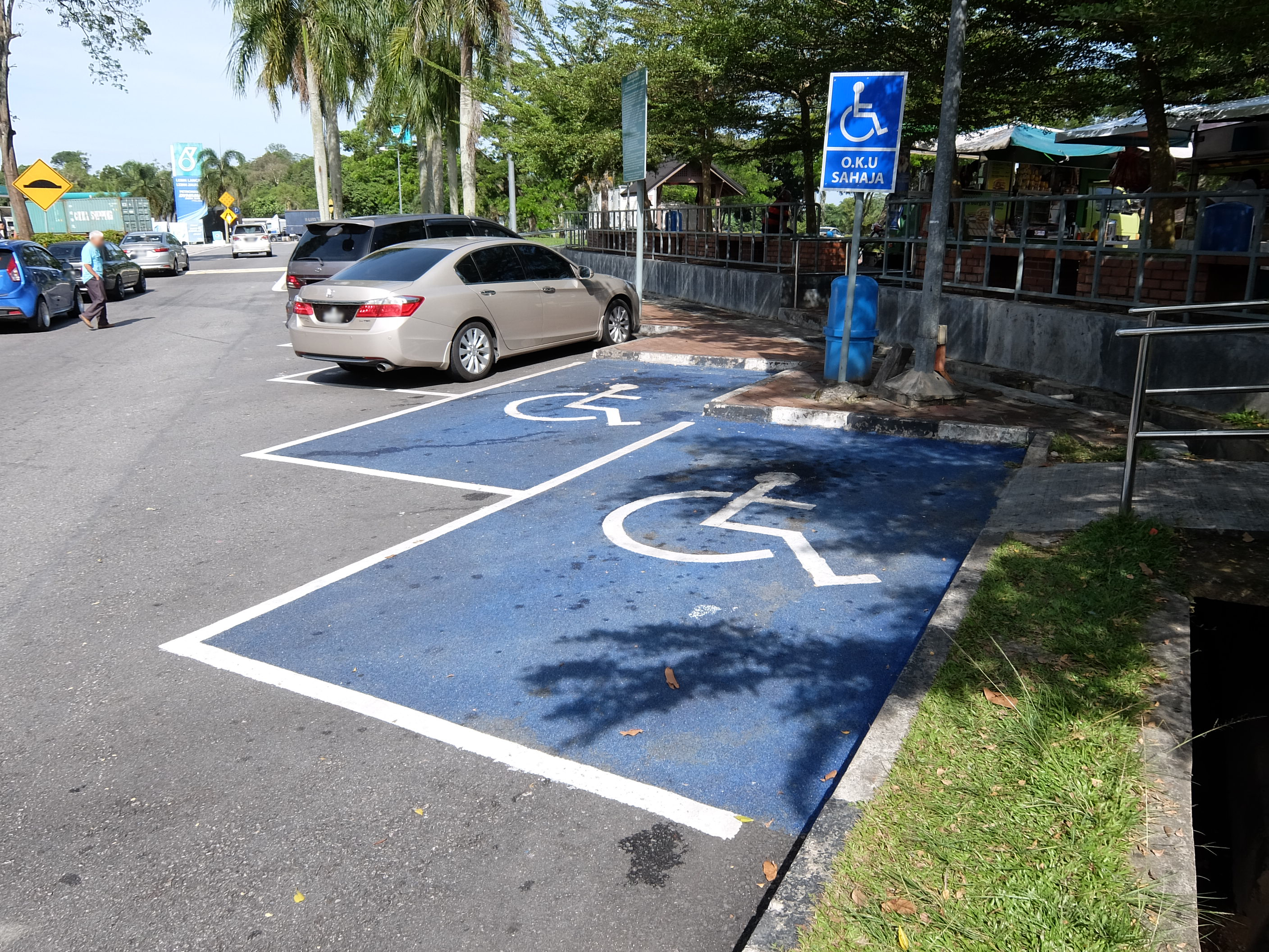 Pedas Linggi Stop Area (Northbound), Rembau, Negeri Sembilan, Malaysia